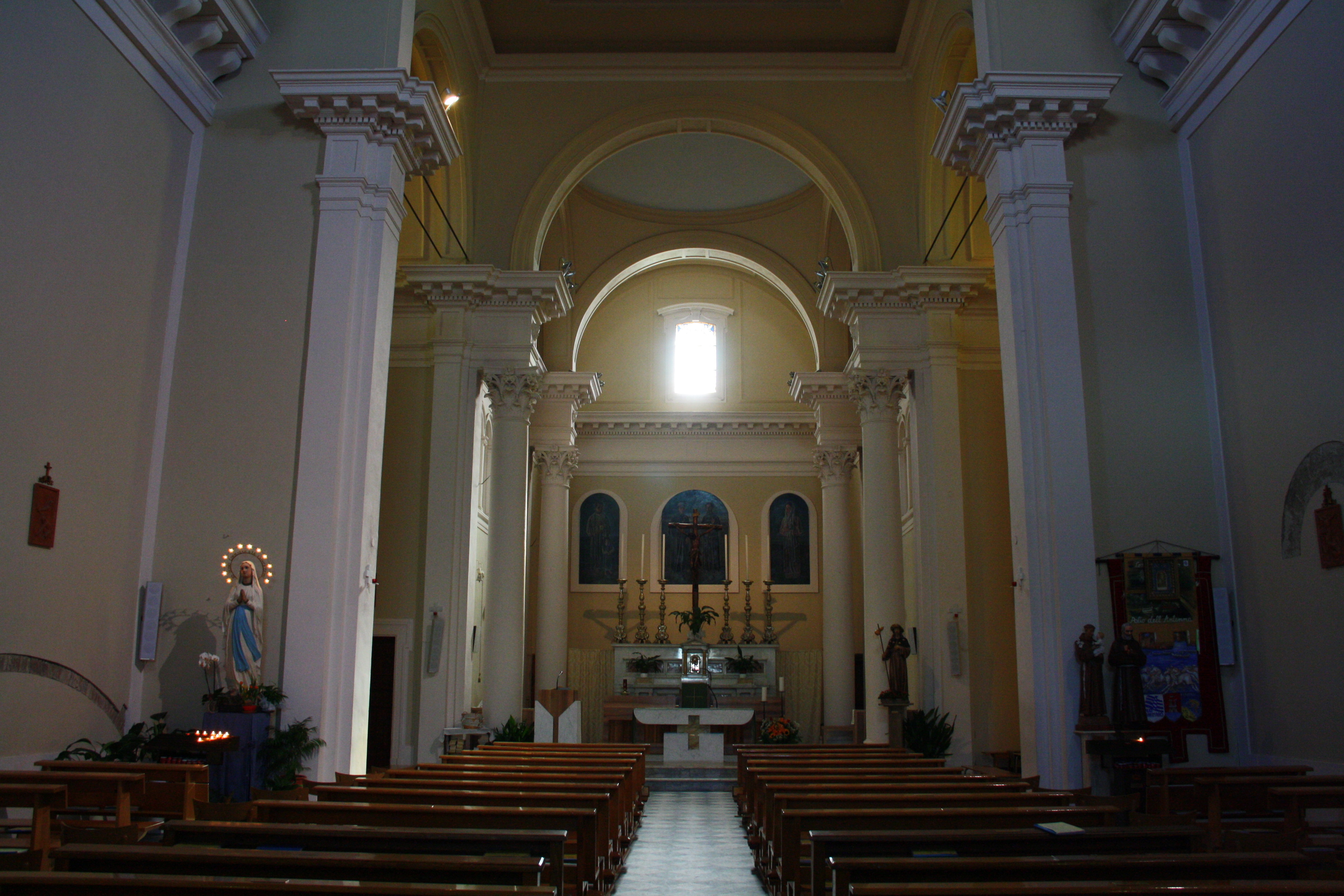 Italy, Livorno, Chiesa di San Jacopo in Acquaviva. The nave recently restored.